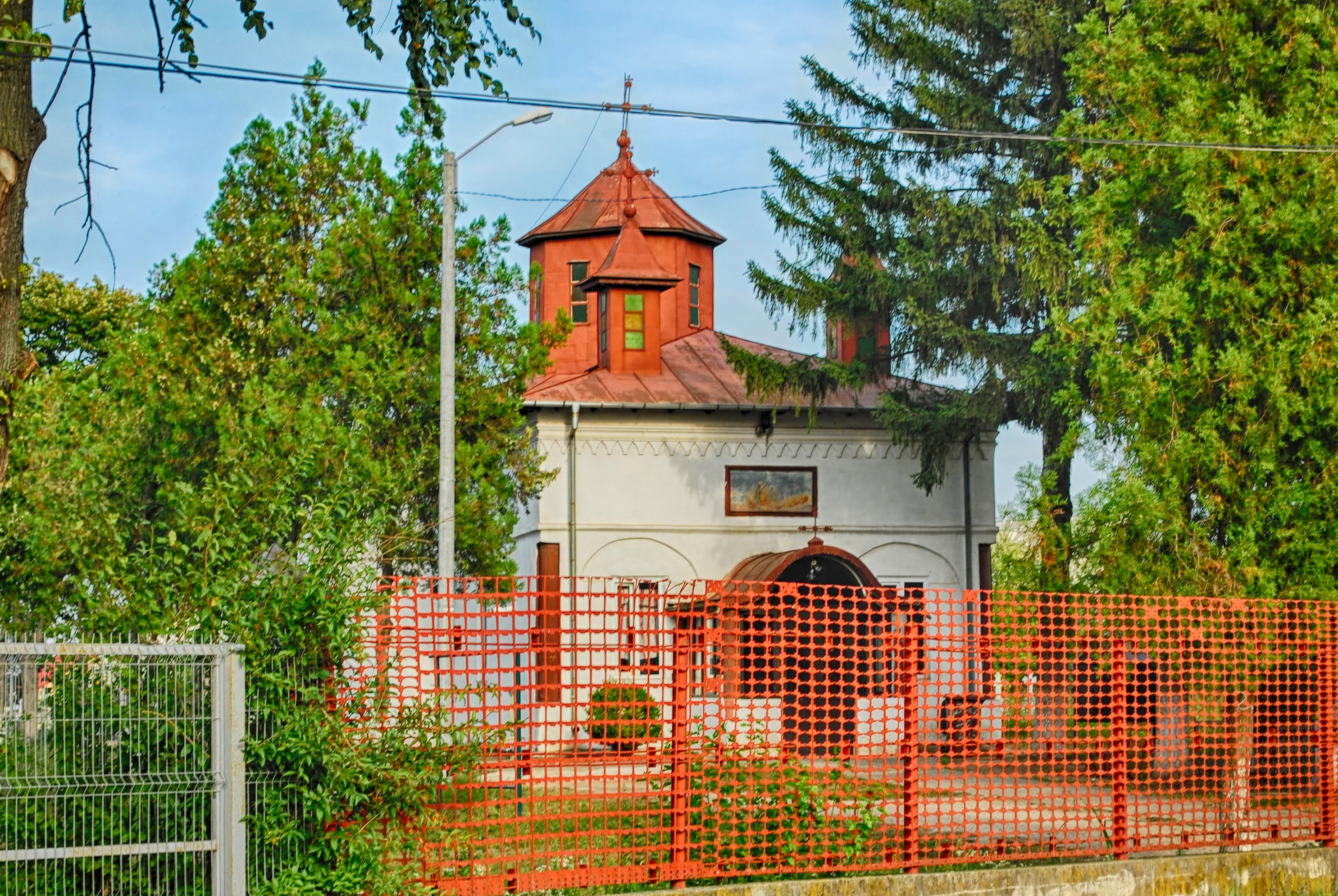 Church of Saint Elijah in Pasărea, Brănești Commune, Ilfov County, RomaniaRomână: Biserica „Sfântul Ilie” din satul Pasărea, comuna Brănești, județul Ilfov, România